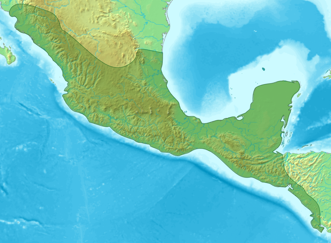 Map of Meso-america